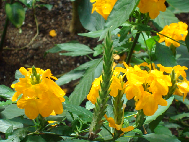 Picture of Crossandra infundibuliformis